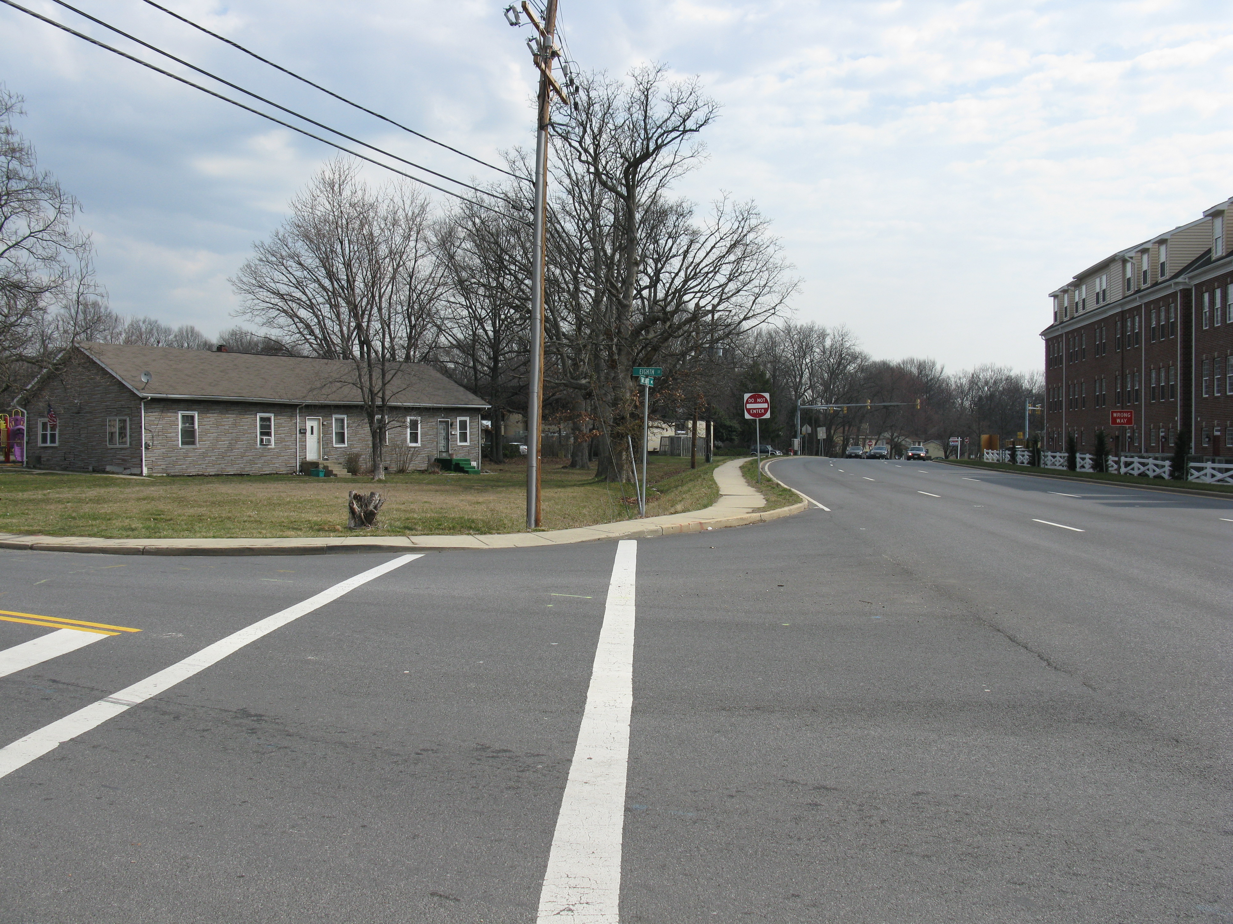 MD 198 at 8th Street, Laurel, Maryland